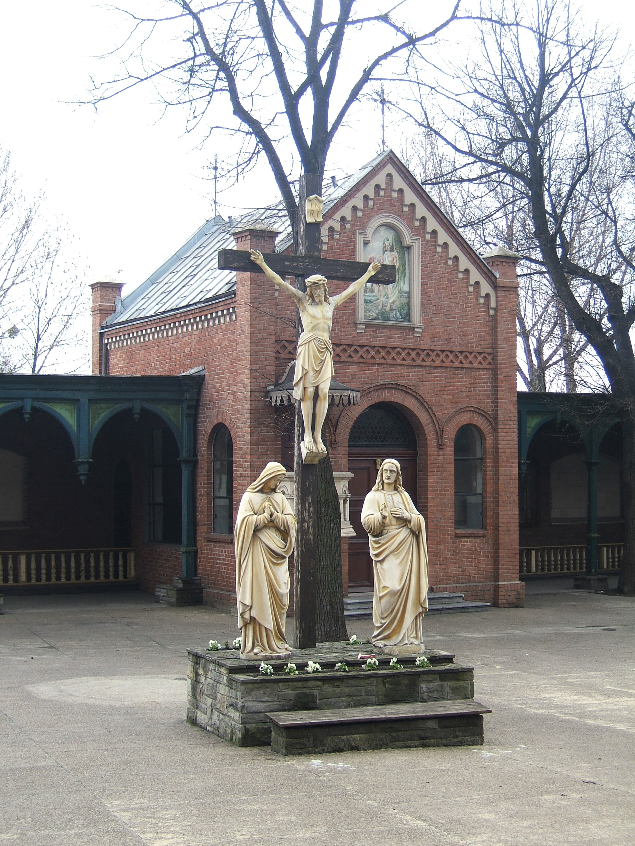 Cross beside the basilica of Piekary Śląskie.